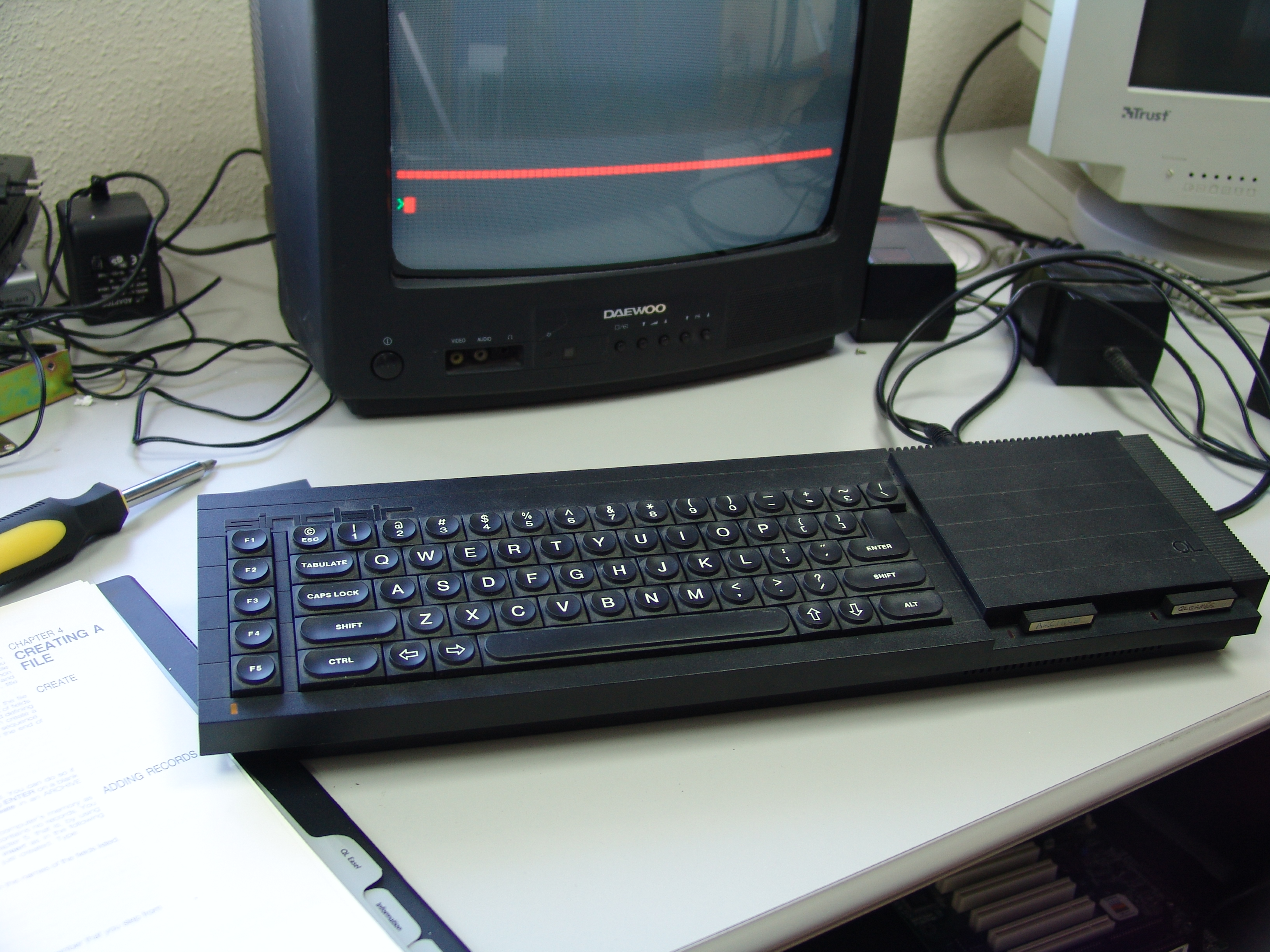 A working Sinclair QL